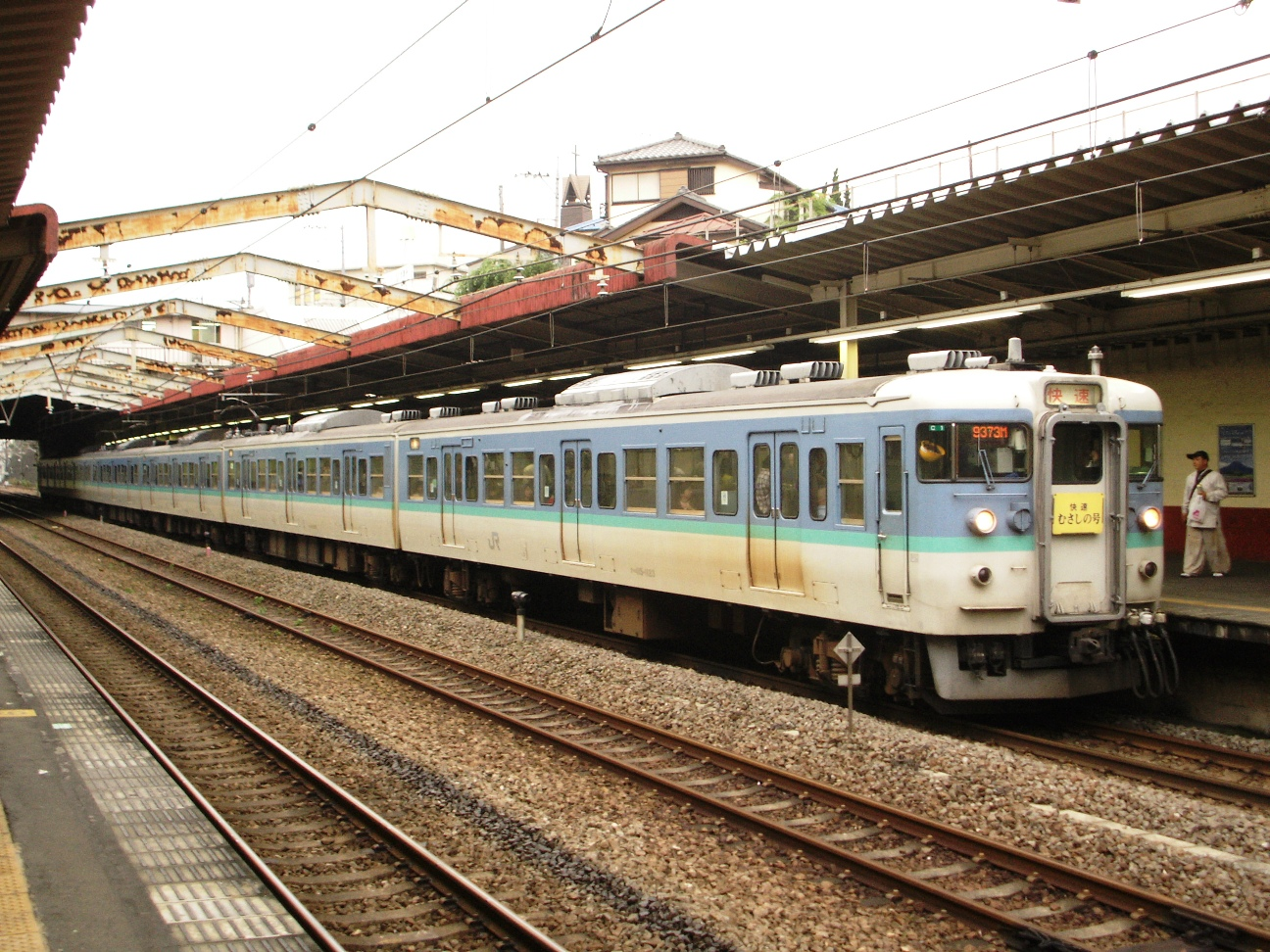 A JR 115 series 6-car EMU in Nagano area livery on a Musashino rapid service